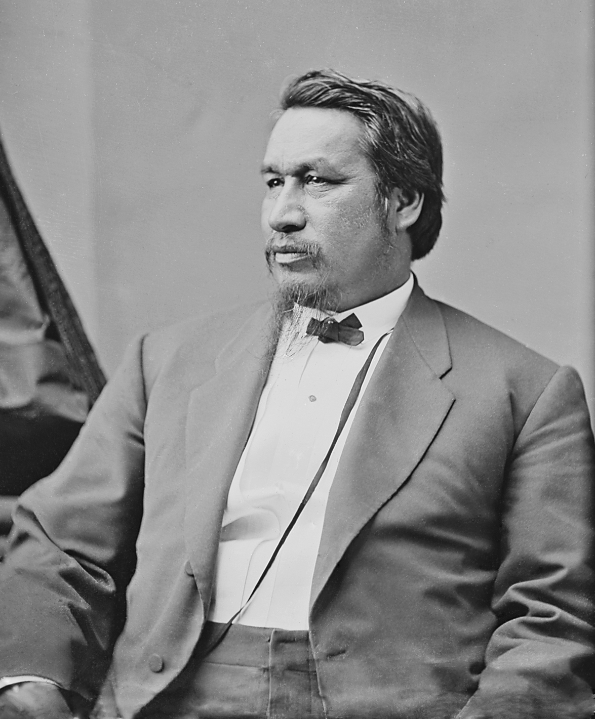 Ely S. Parker, Native American civil engineer